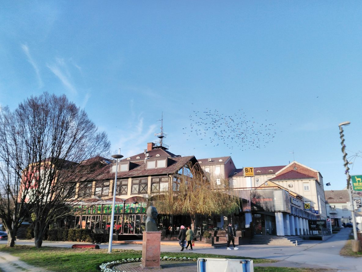 Vinkovci town center.